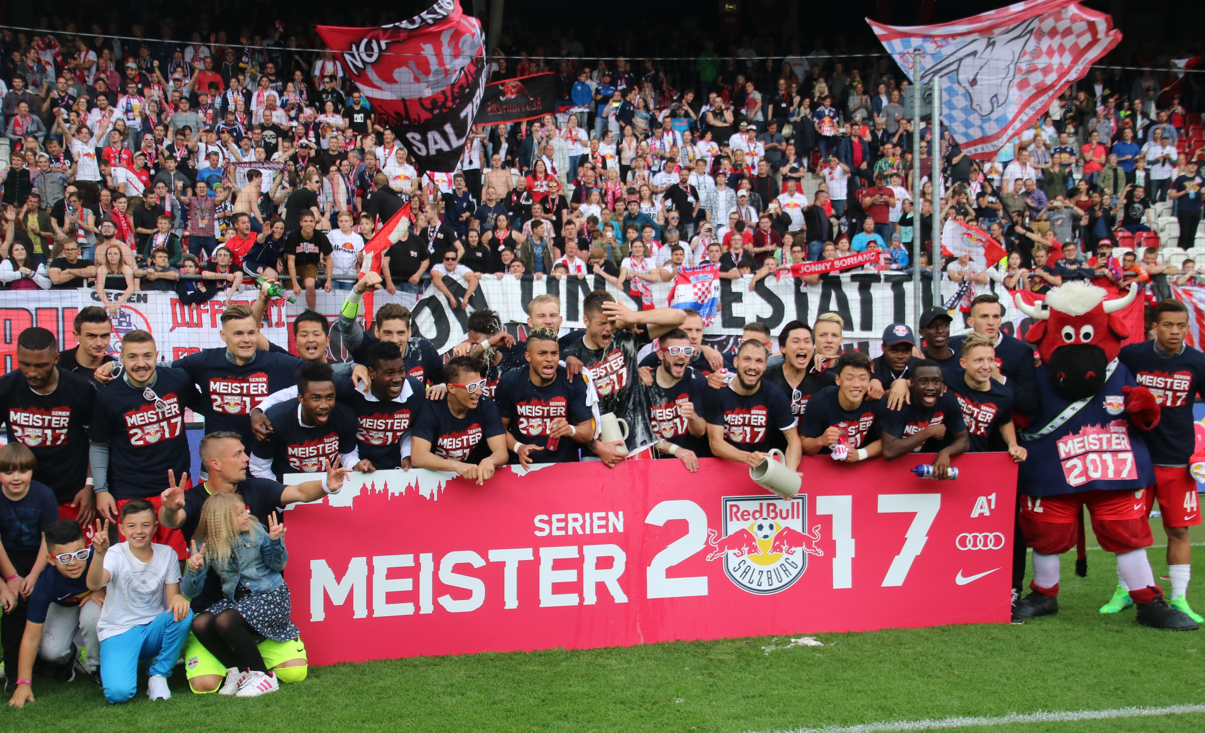 FC salzburg fixed the title with a 1:0 victory over SK Rapid Wien in round 33 out of 36